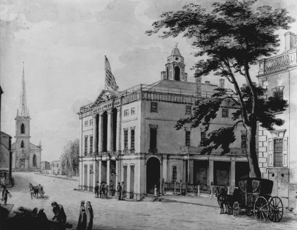 Archibald Robertson’s View up Wall Street with City Hall (Federal Hall) and Trinity Church, New York City from around 1798.